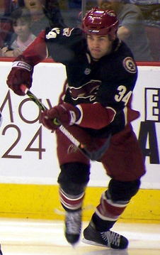 Daniel Winnik of the Phoenix Coyotes in a game against the Vancouver Canucks on March 21, 2009.